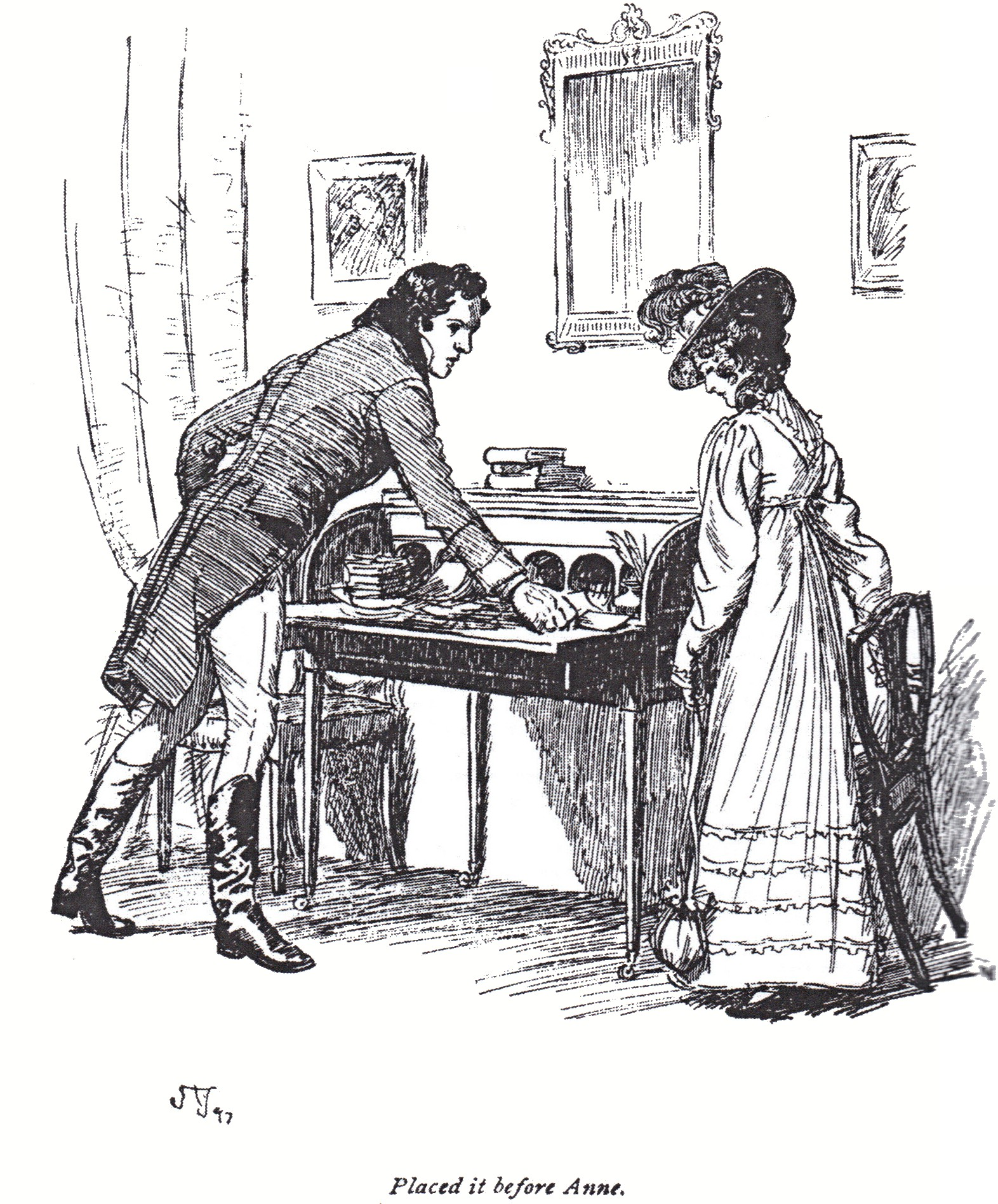 Engraving for Persuasion, ch.23: he drew out a letter from under the scattered paper, placed it before Anne with eyes of glowing entreaty fixed on her for a time.